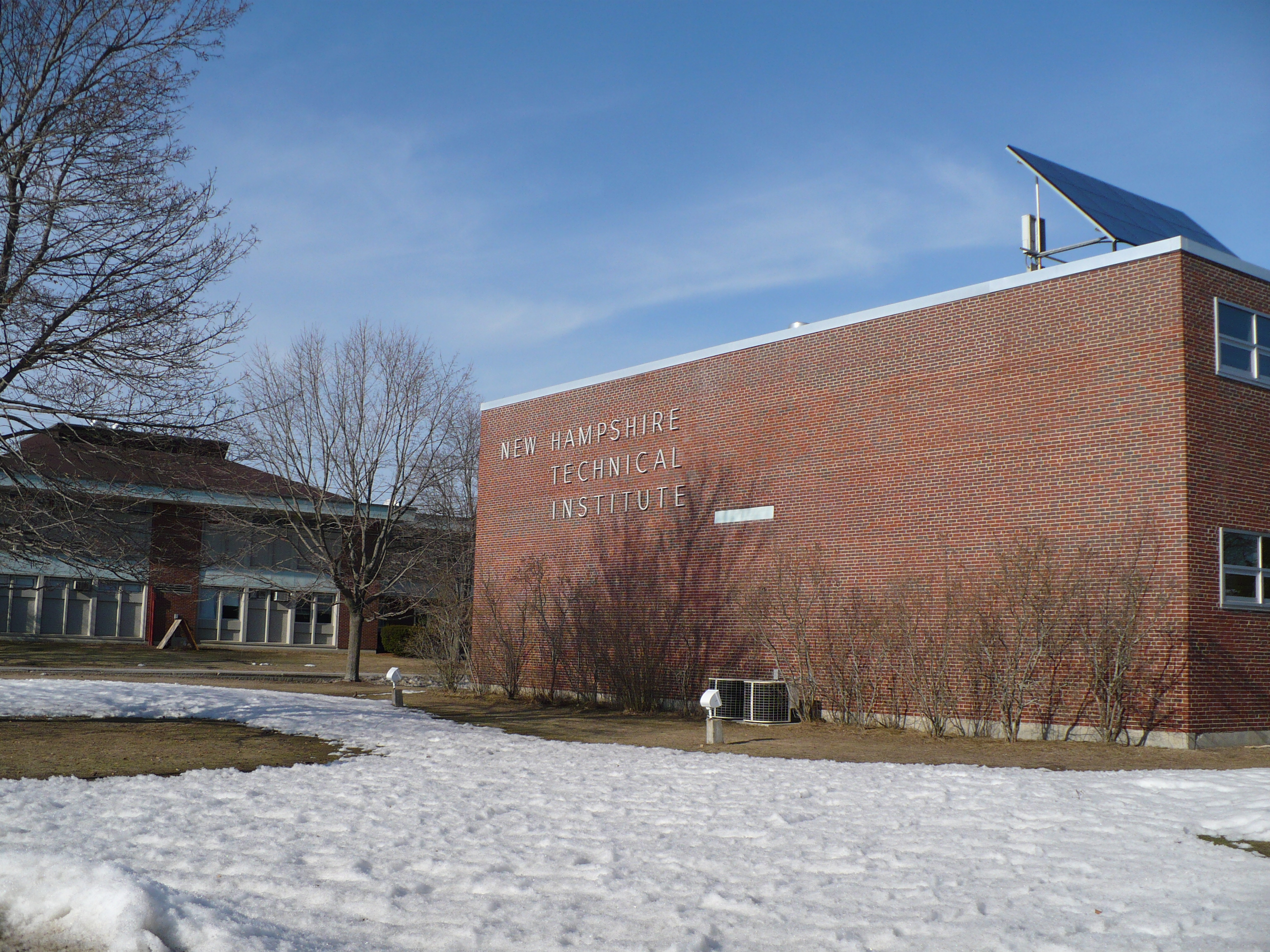 New Hampshire Technical Institute's Earl H. Little Hall (right) and Elwood F. Macrury Hall (left).